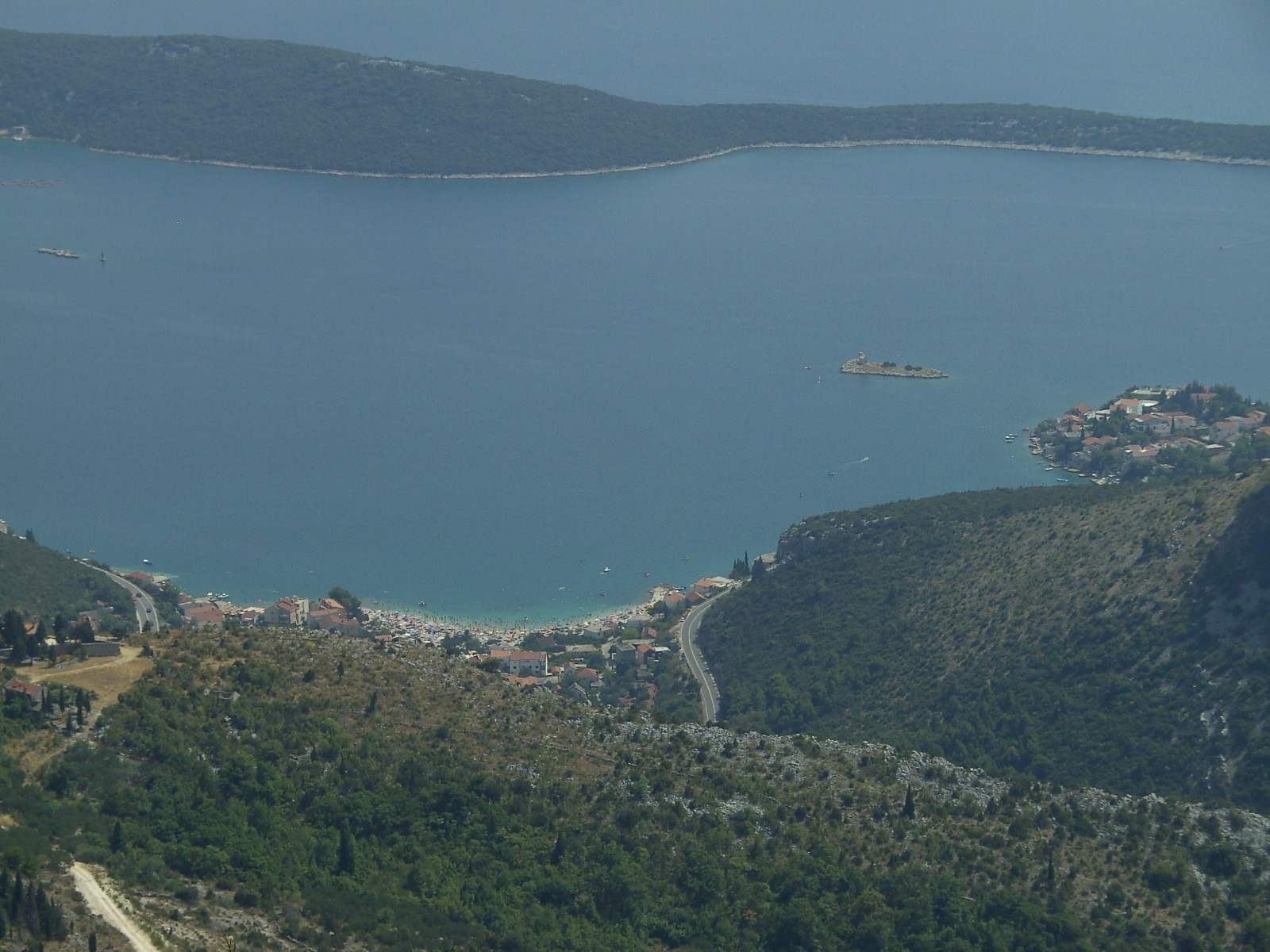 Klek tourist resort in Croatia